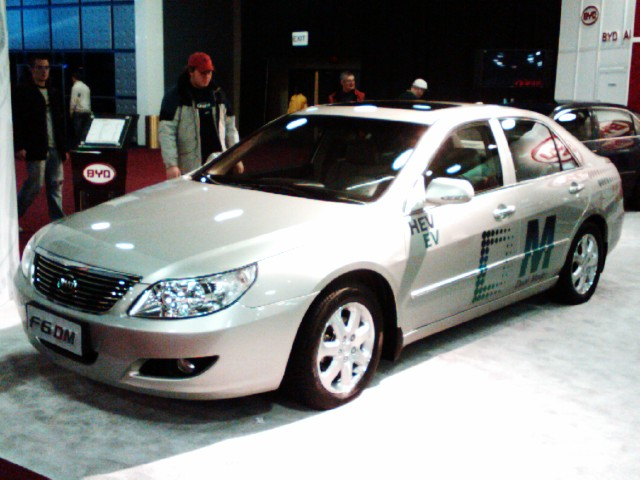 BYD F6DM plug-in hybrid at NAIAS2008. "DM" stands for "Dual Mode": electric-only and hybrid gas/electric.